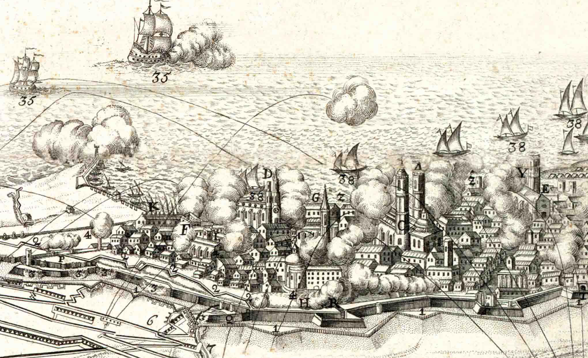 Barcino Magna Parens